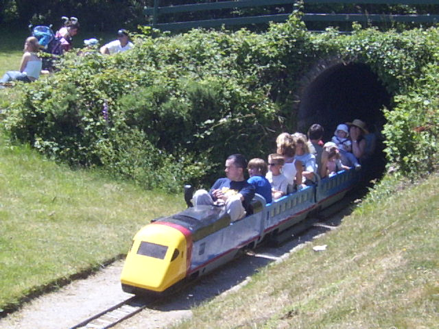 7¼ inch gauge APT at the Lappa Valley Steam Railway